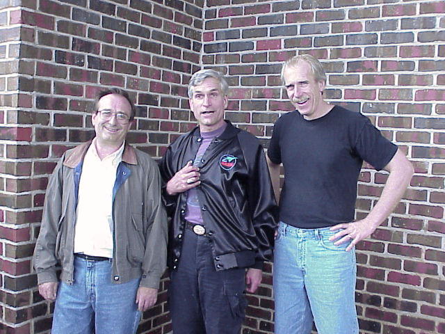 From left to right, author Eric Flint, author David Drake, and artist Gary Ruddell.